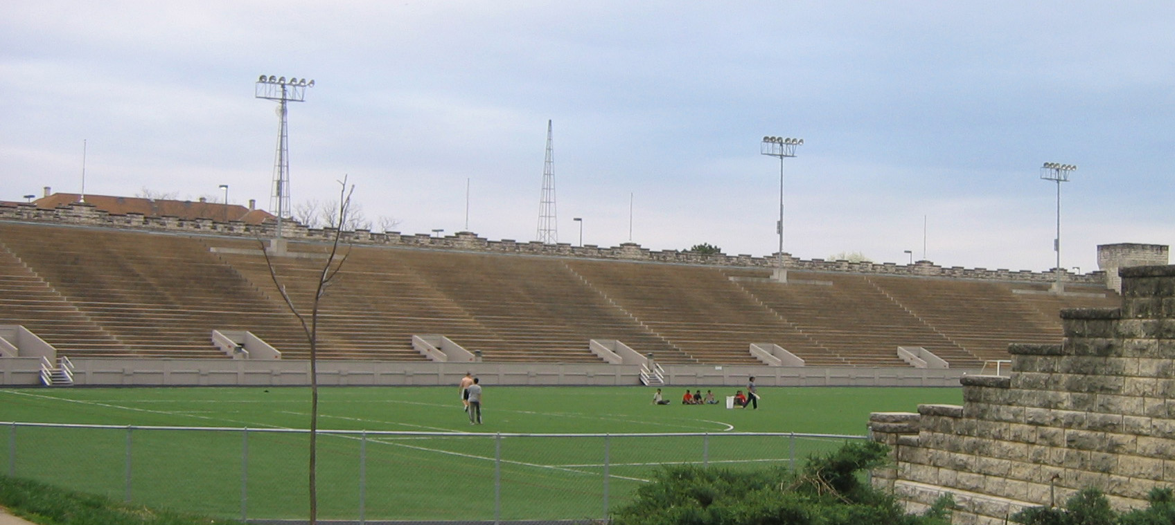 Football & Basketball Facilities Kansas State Stadium